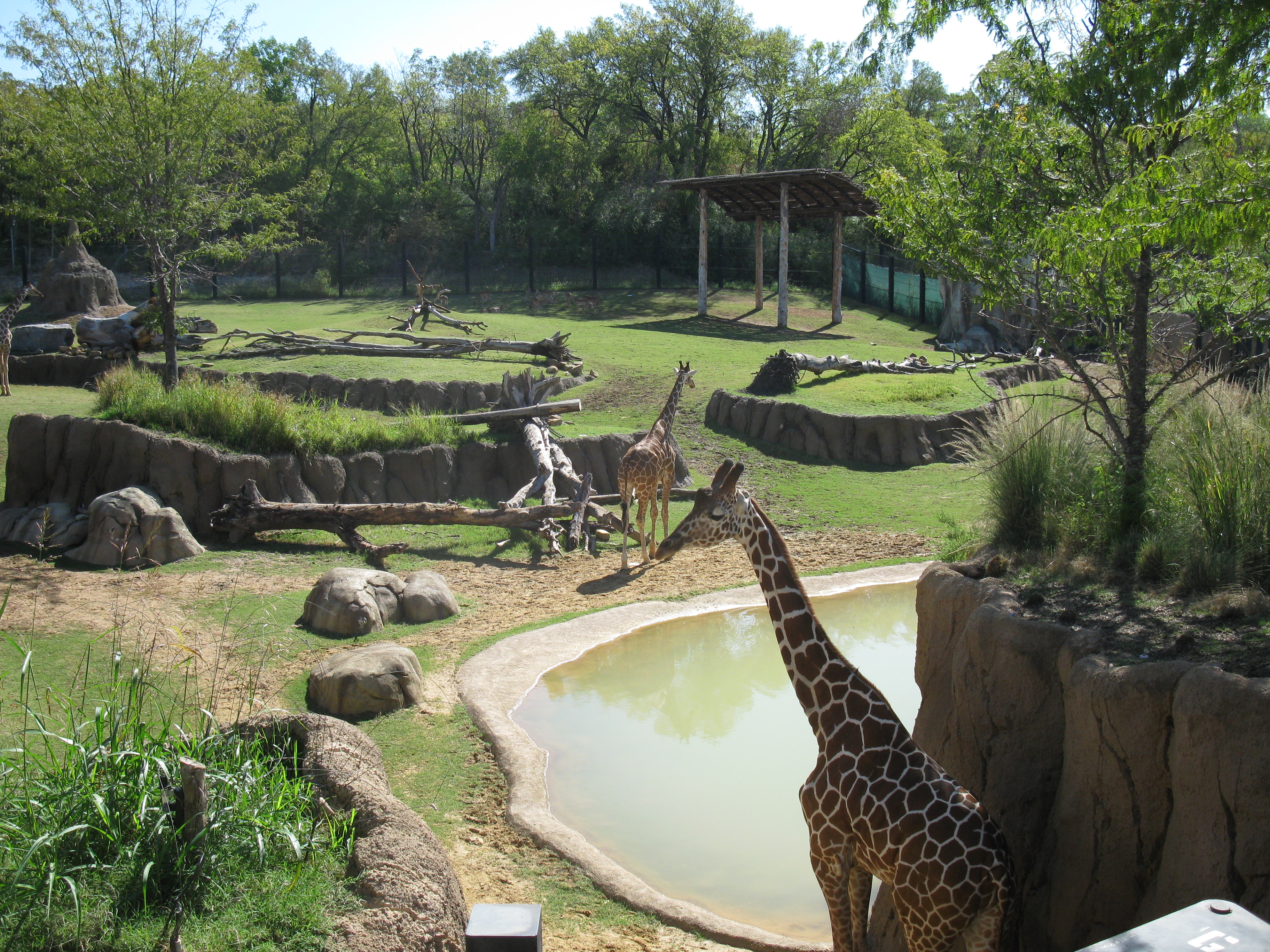 Dallas Zoo-Giants of the Savanna-Giraffes